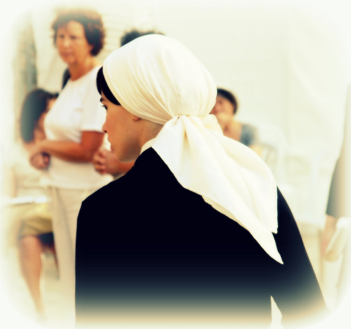 Jewish girl in art Jerusalem western wall with a white veil